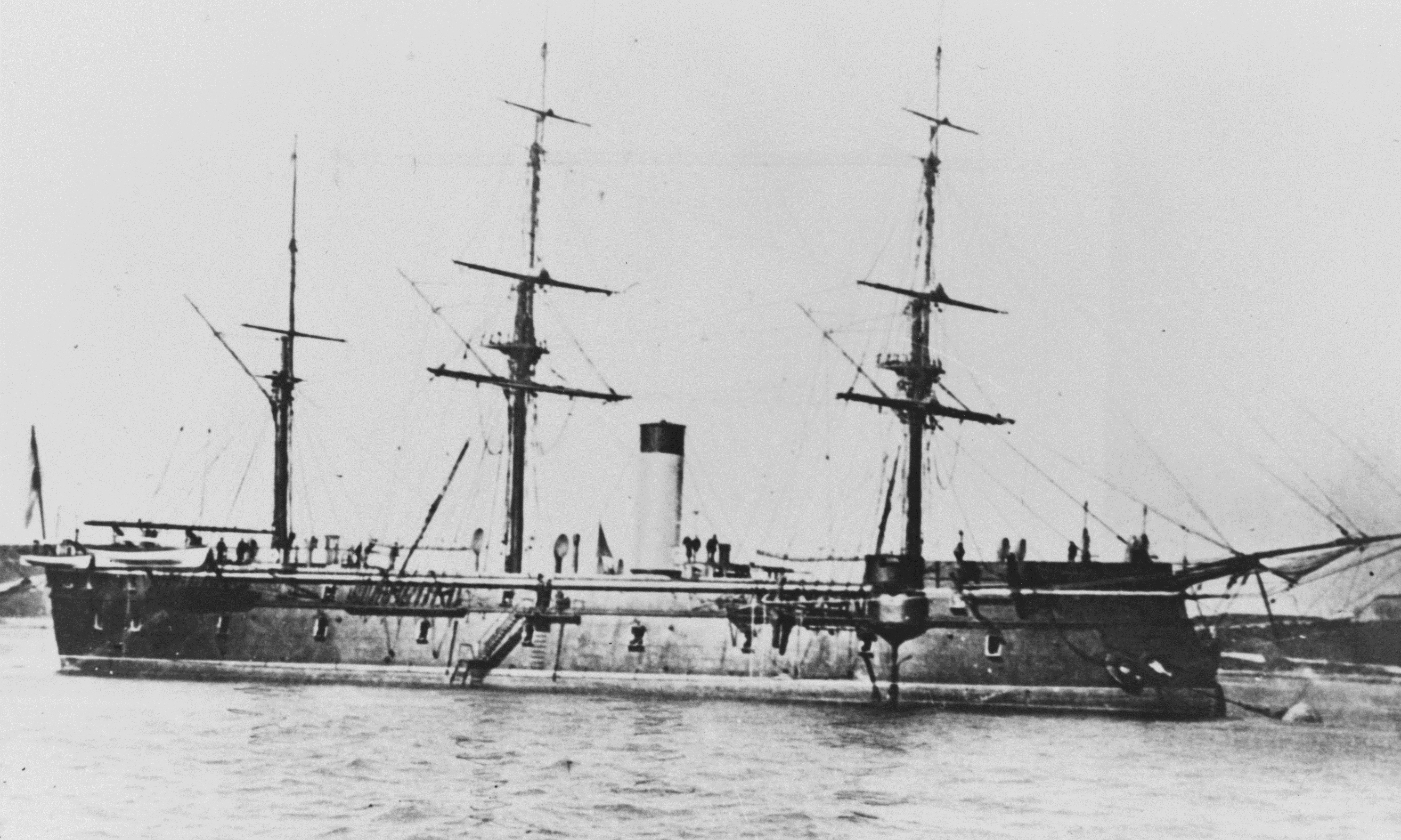 Austro-Hungarian ironclad SMS Habsburg after her 1877 modernization.